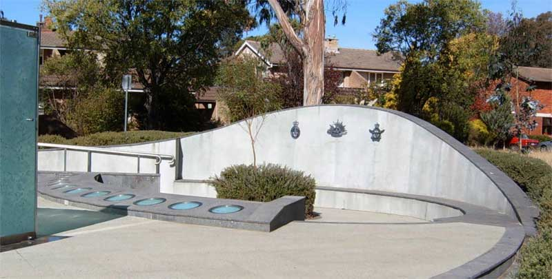 Australian Service Nurses National Memorial, in ANZAC Parade, the principal ceremonial and memorial avenue of Canberra, the national capital city of Australia. Detail of water-pool fountain. I took this picture on 28 April 2005. Peter Ellis 07:42, 1 May 2005 (UTC)